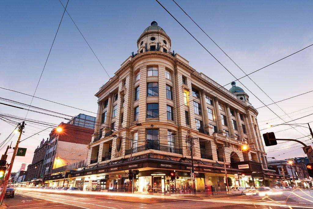 Pran Central Chapel St view